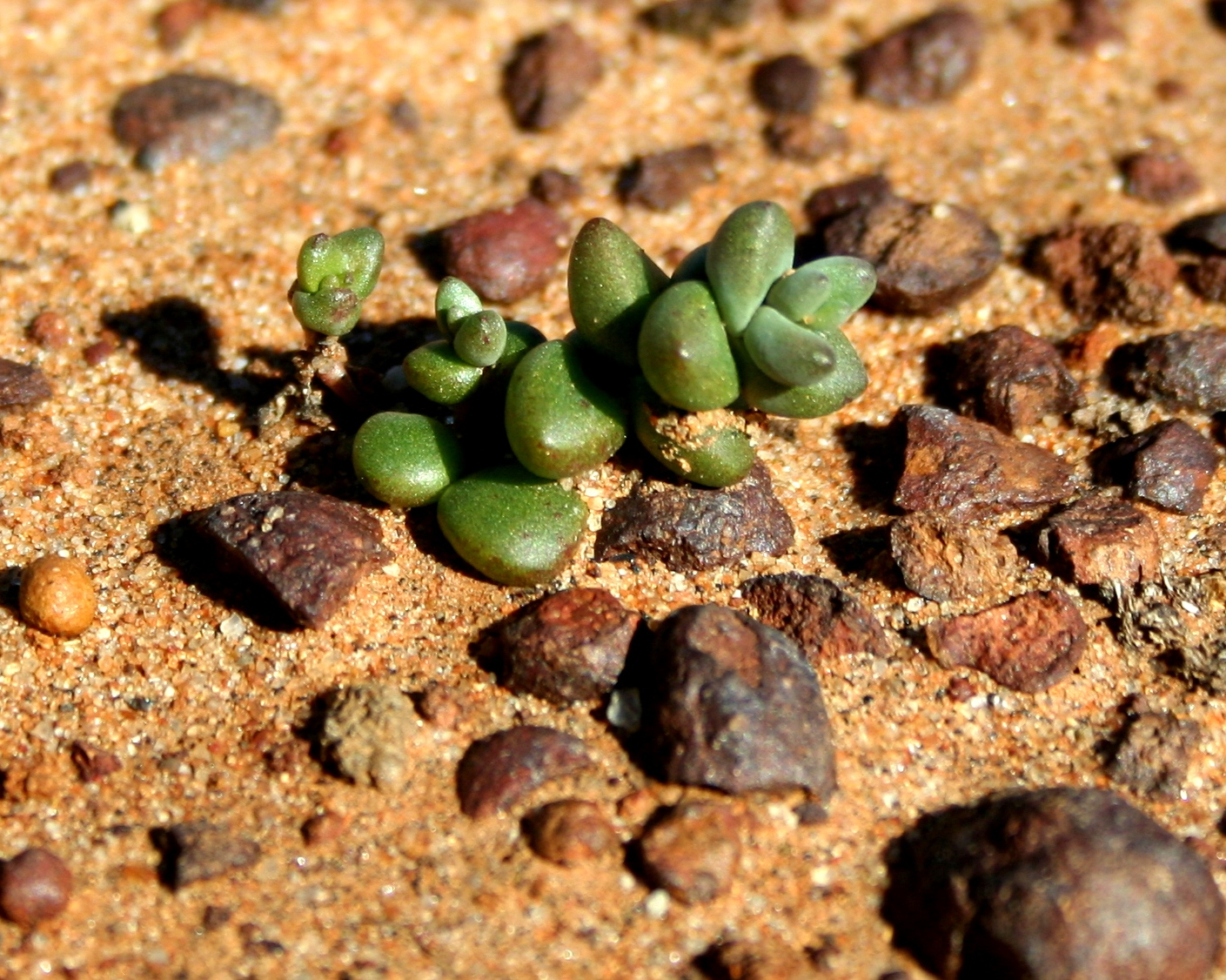 Dudleya blochmaniae subsp. brevifolia — Short-Leaved Dudleya. This is from sub-population A at Carmel Mountain preserve, San Diego. A rare subspecies of Dudleya blochmaniae, with an extremely limited and endemic range in San Diego County, Southern California. Photo taken by Matthew Luskin with Canon Digital Rebel (SLR) on 2/26/2008.